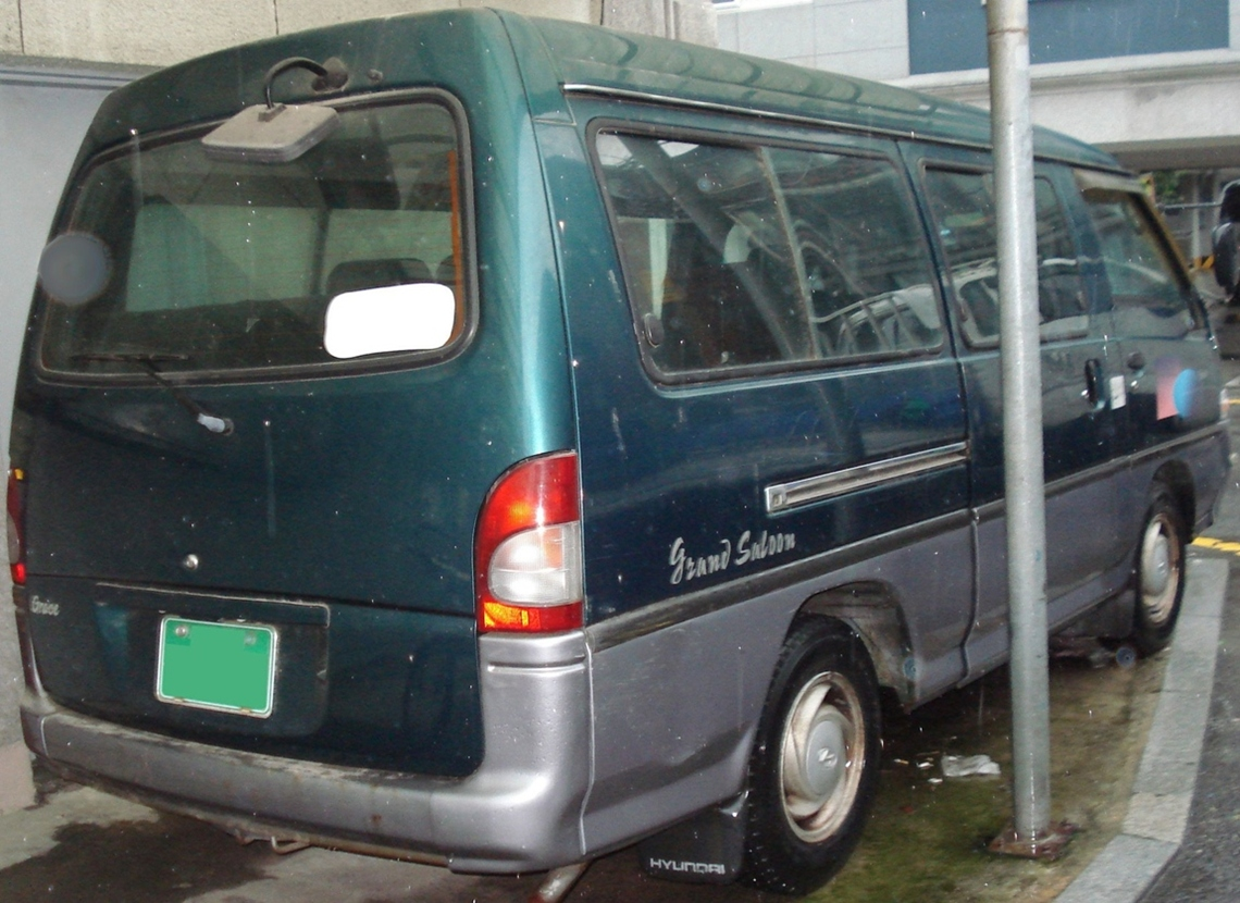 Hyundai Grace